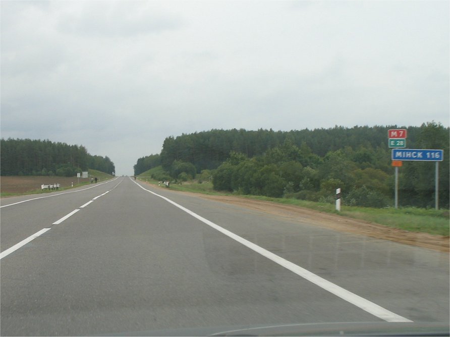 View of M7 highway (E28), with 116 km left to Minsk, Belarus.